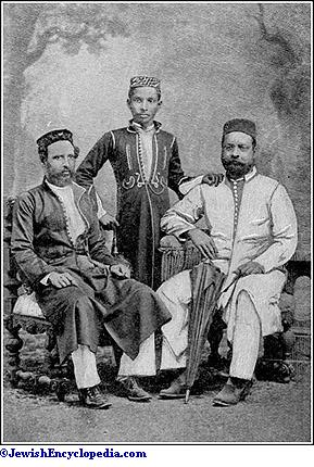 Groupe of Cochin jews